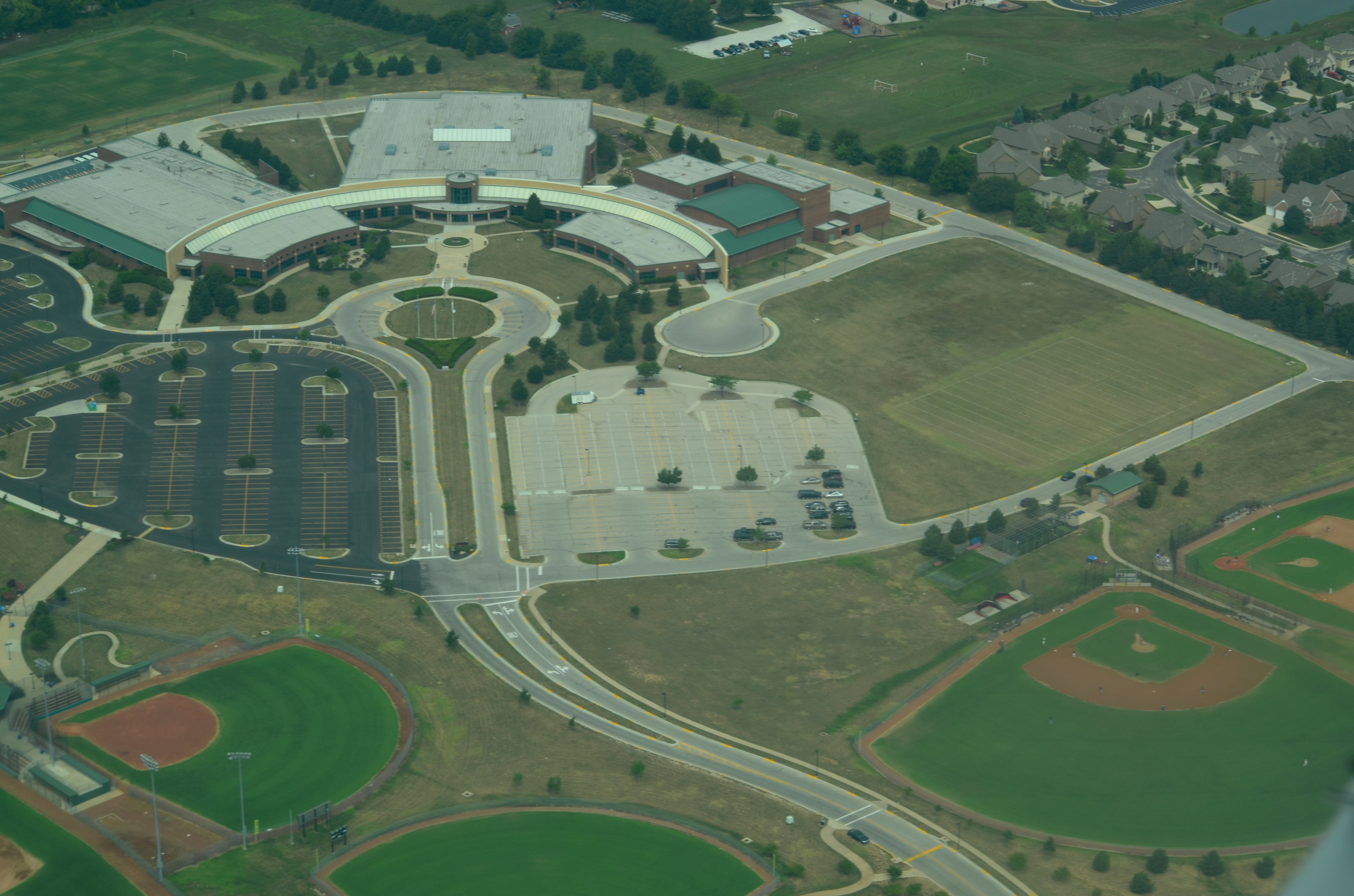 Blue Valley West High School - Overland Park, Kansas 08-31-2013